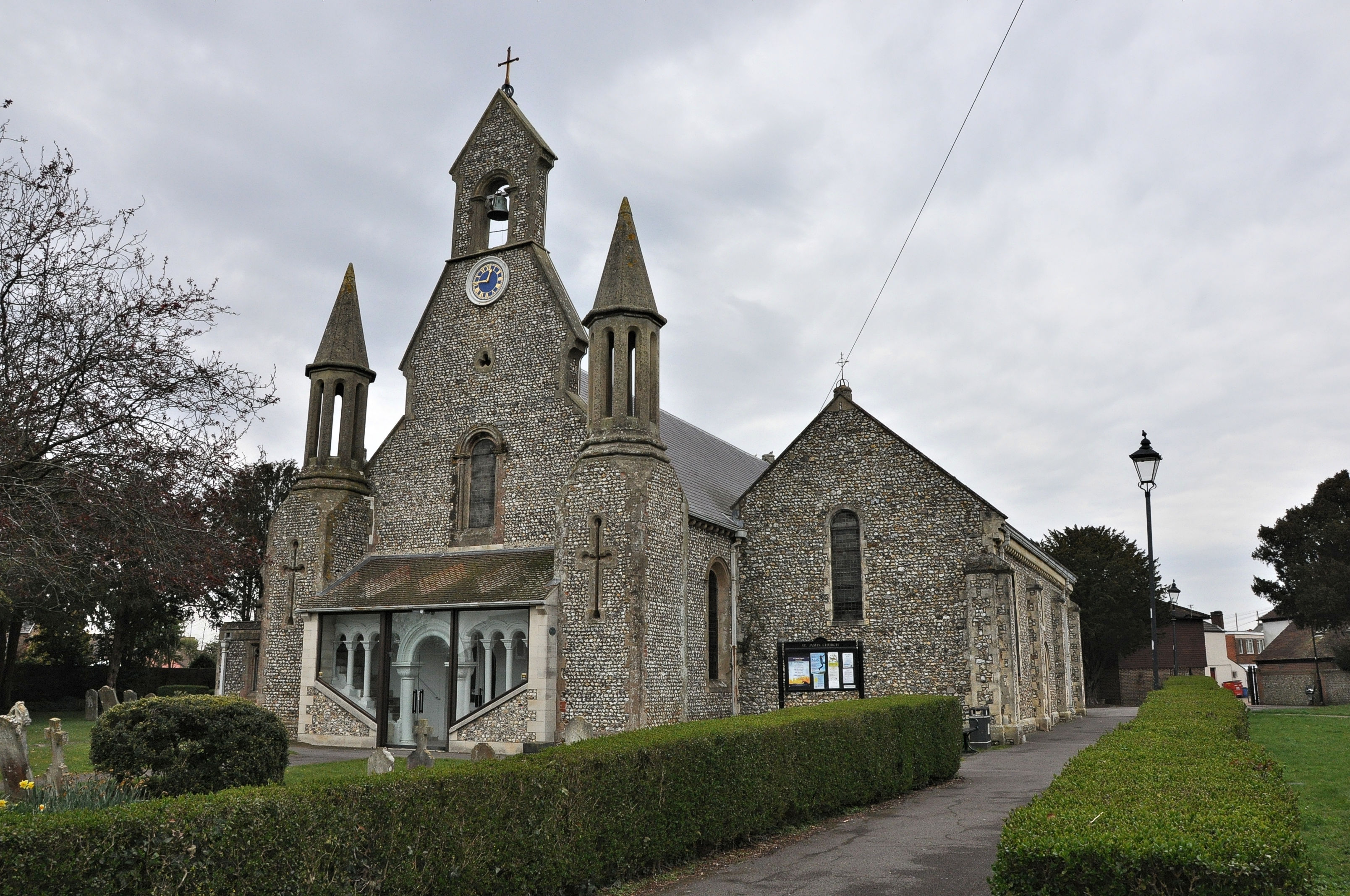 St James' parish church, Emsworth, Hampshire, seen from the south